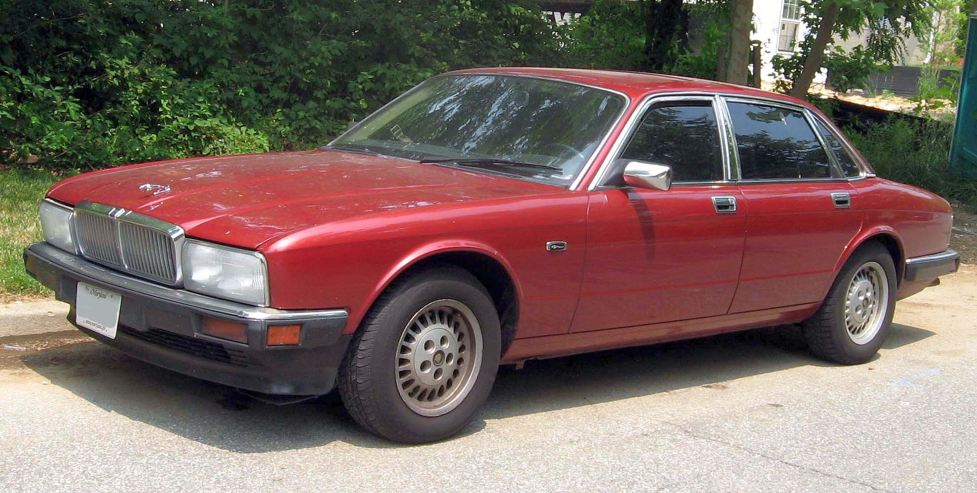 1986-1989 Jaguar XJ photographed in USA.